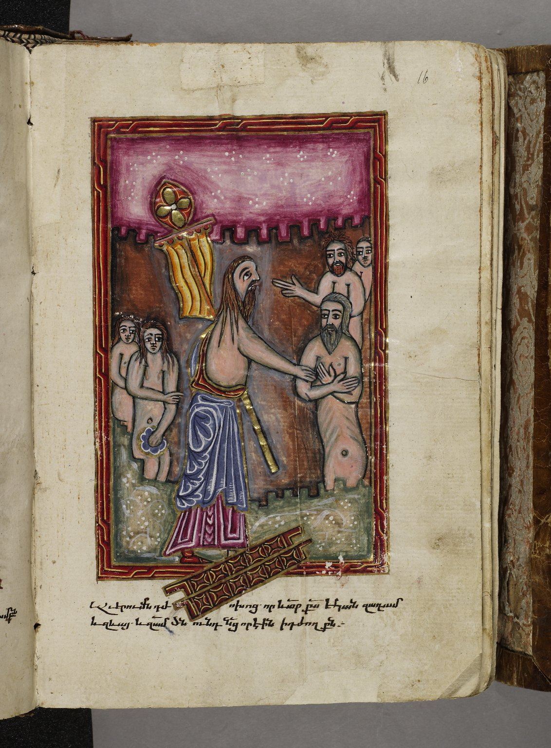 The Descent into Hell. From Illuminated Armenian Gospels with Eusebian canons. Shelfmark MS. Arm. d.13.